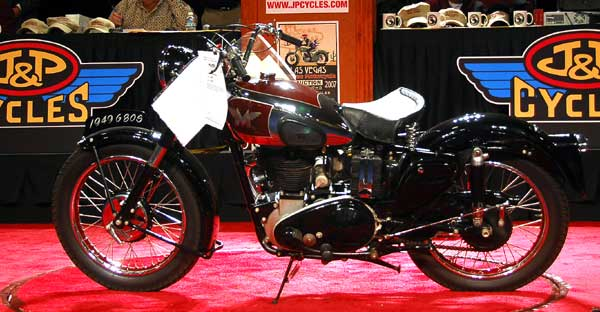 A 1949 Matchless G80S motorcycle at auction in Las Vegas in 2007. Photo © by Jeff Dean